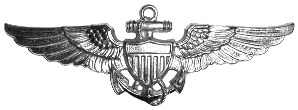 Early U.S. Naval Aviation Observer Wings. Between January 1927 and October 1929the design of U.S. Naval Aviation Observer Wingswas the same as Naval Aviator Wings except the observer wings were silver, not gold like the Naval Aviator. After that it was changed to wings on either side of an ‘O’ circumscribing an erect plain anchor ( Courtesy U.S. Navy